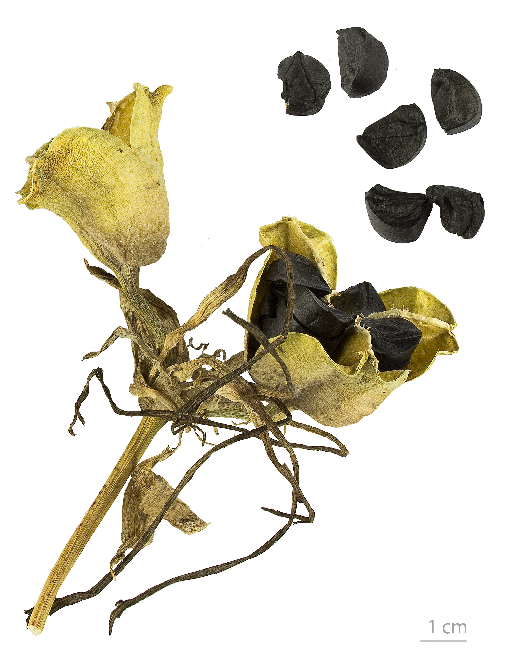 Sea daffodil , fruits and seeds